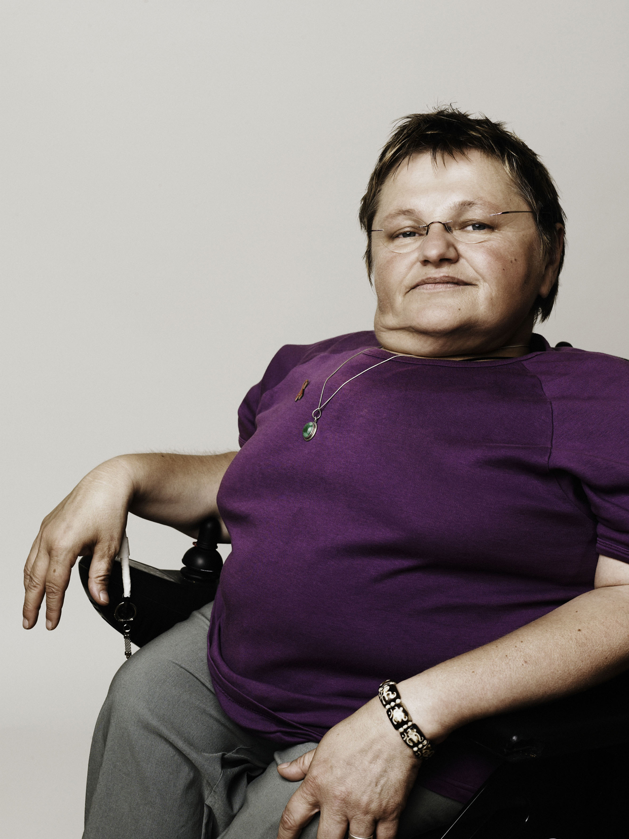 The austrian politician Theresia Haidlmayr, member of the Green Party of Austria